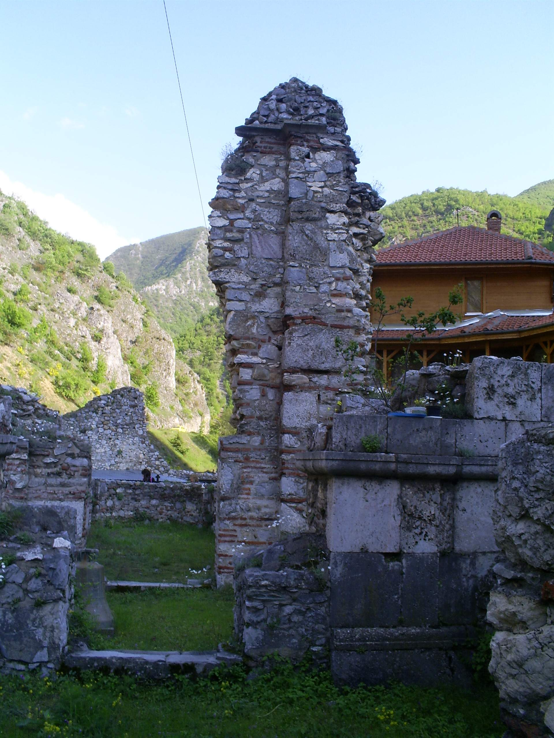 Remains of smaller church of saint Nicolas with new Konak in Sveti Arhangeli near Prizren, Serbia.